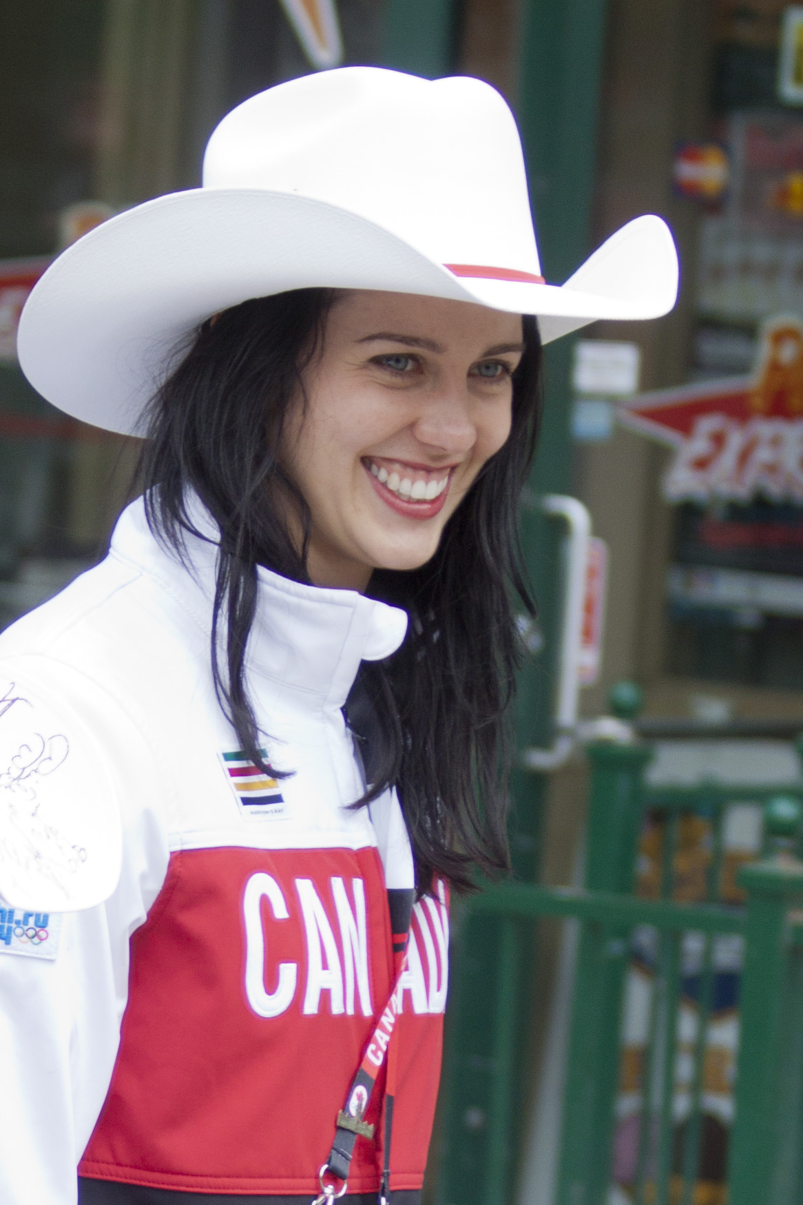 Rosalind Groenewoud at the Parade of Champions in downtown Calgary on June 6, 2014. Image has been cropped and spot-touched.